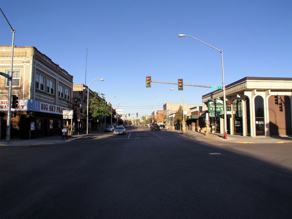 Main Street looking east from Seventh Street, Miles City, Montana.